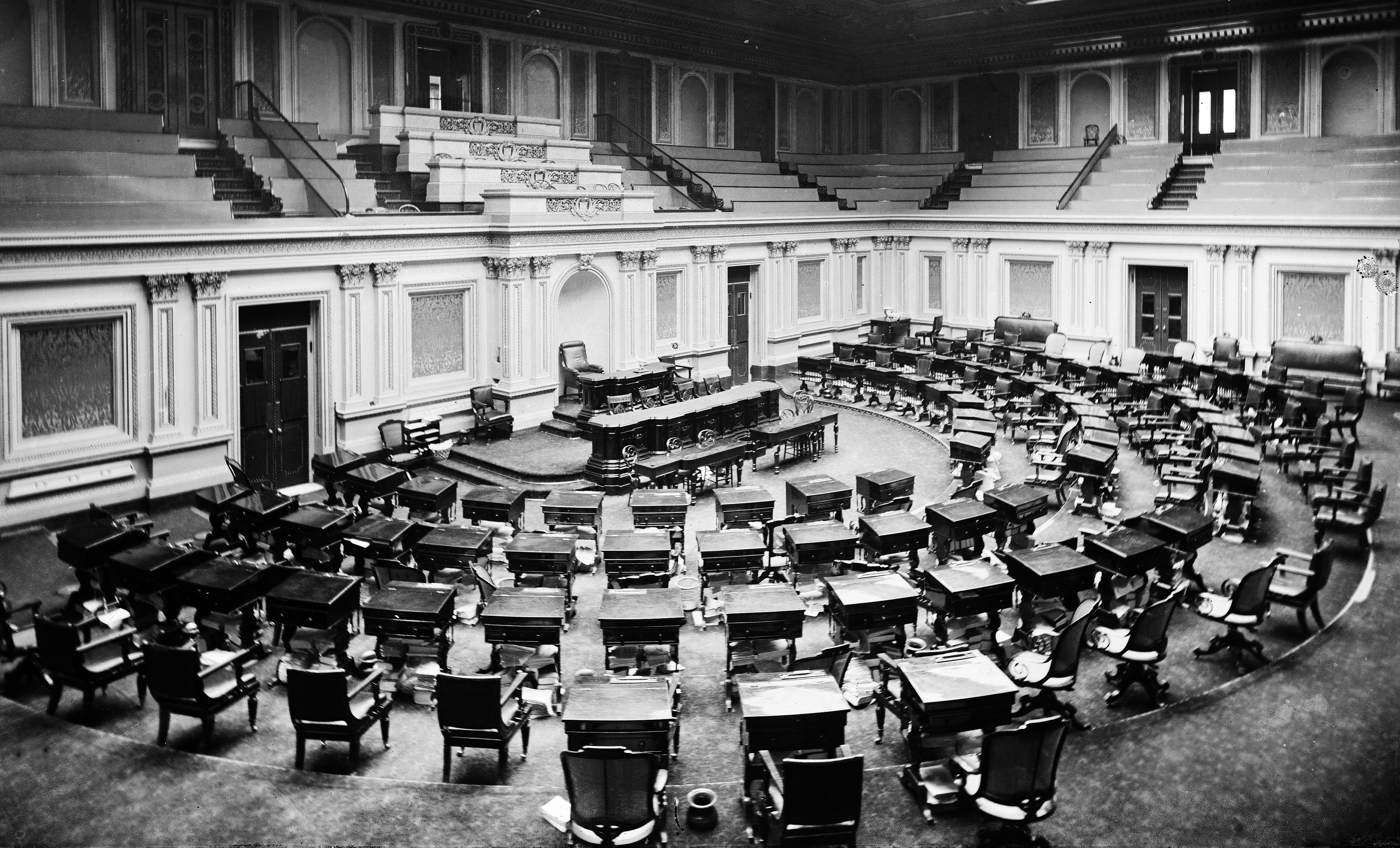 US Senate Chamber (Restored image from glass negative)